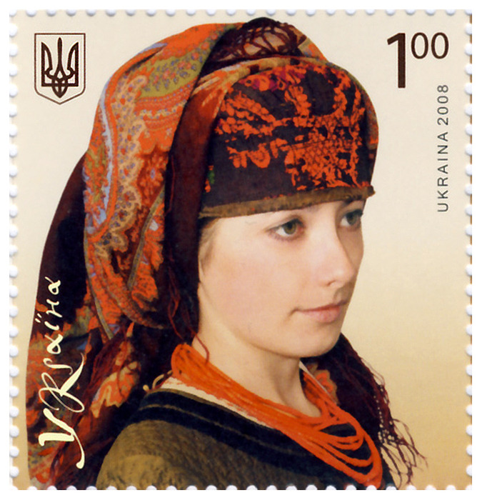 Traditional Headdress of Ukraine: Ochipok and kerchief, from Cherkasy